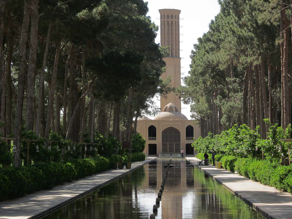 Dowlat Abad Garden, Yazd, Iran.